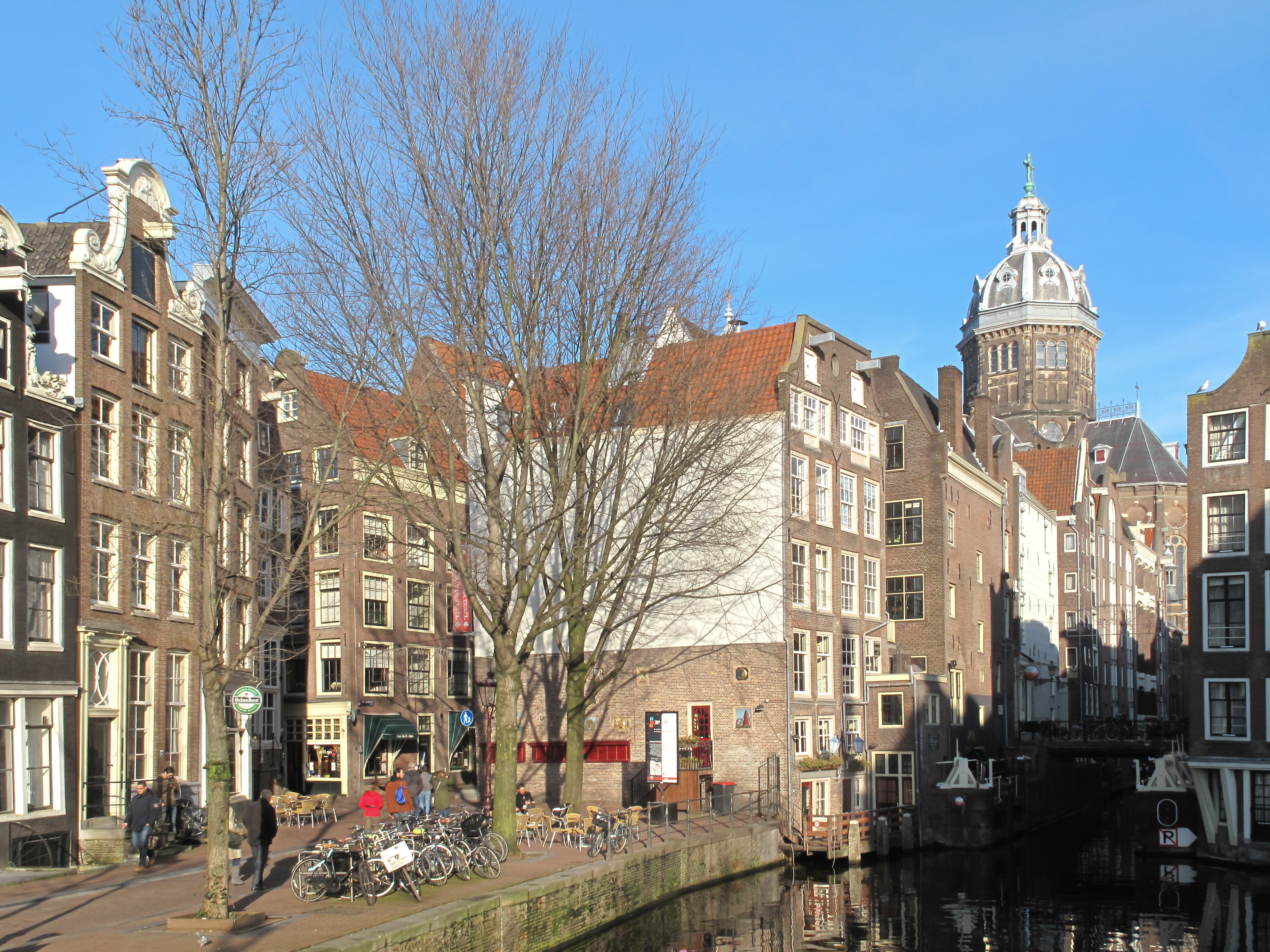 Amsterdam, view to a street (de Oudezijds Voorburgwal) with churchtower (de Sint Nicolaaskerk )